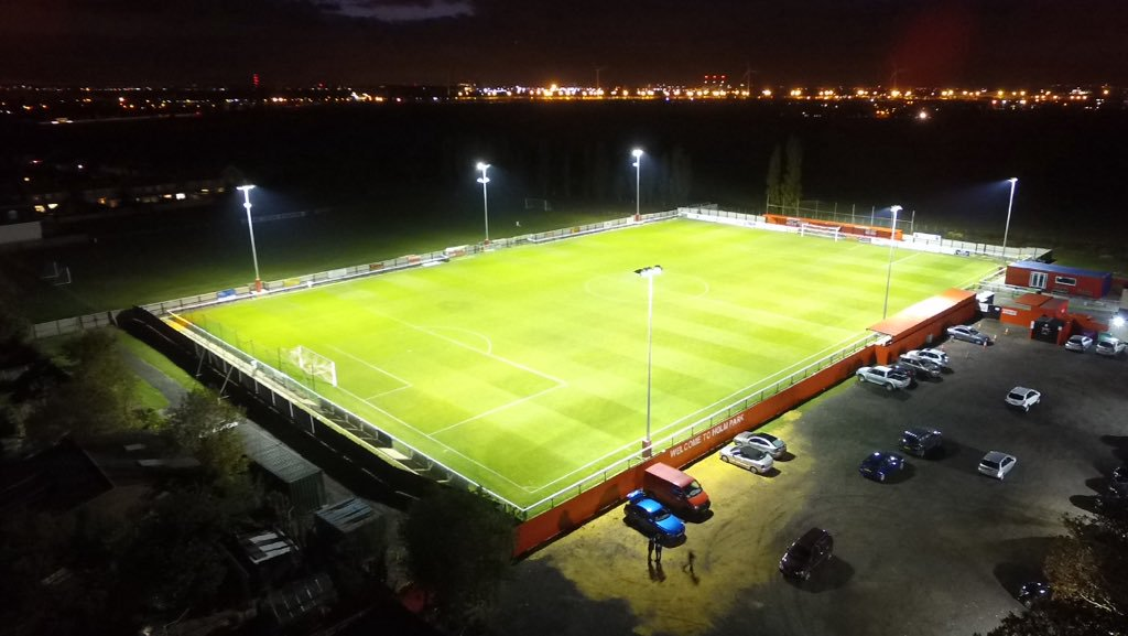 Aerial view of Sheppey United's home ground Holm Park.